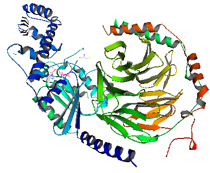 Structure of a heterotrimeric G-protein that consists of a chimeric αt/αi subunit (blue) and the βγ subunit (red, green). This image has been created on the basis of the crystal structure data.